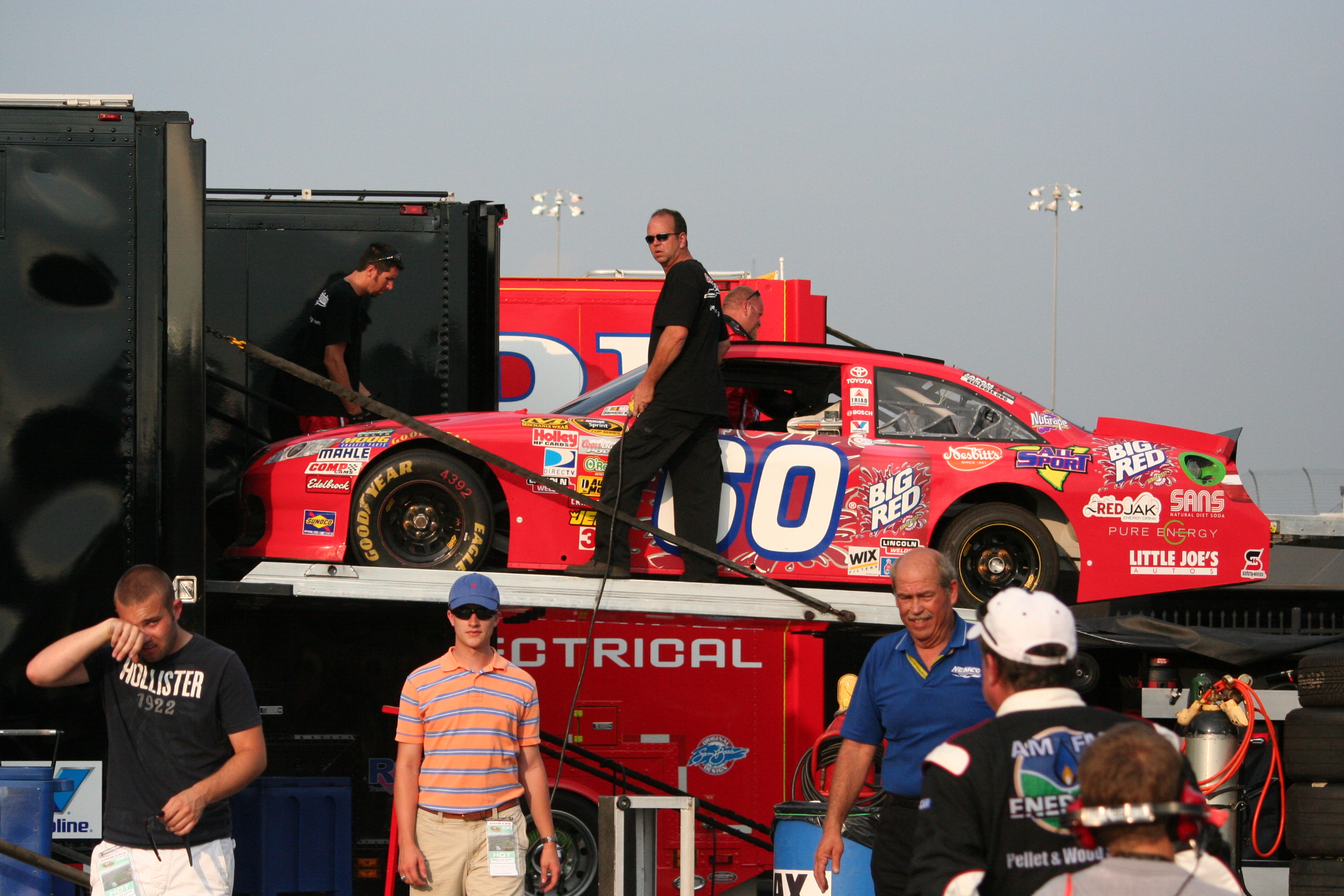 Mike Skinner's No. 60 Big Red Toyota gets loaded into the Germain Racing hauler at Charlotte Motor Speedway during the Coca-Cola 600, May 29, 2011.